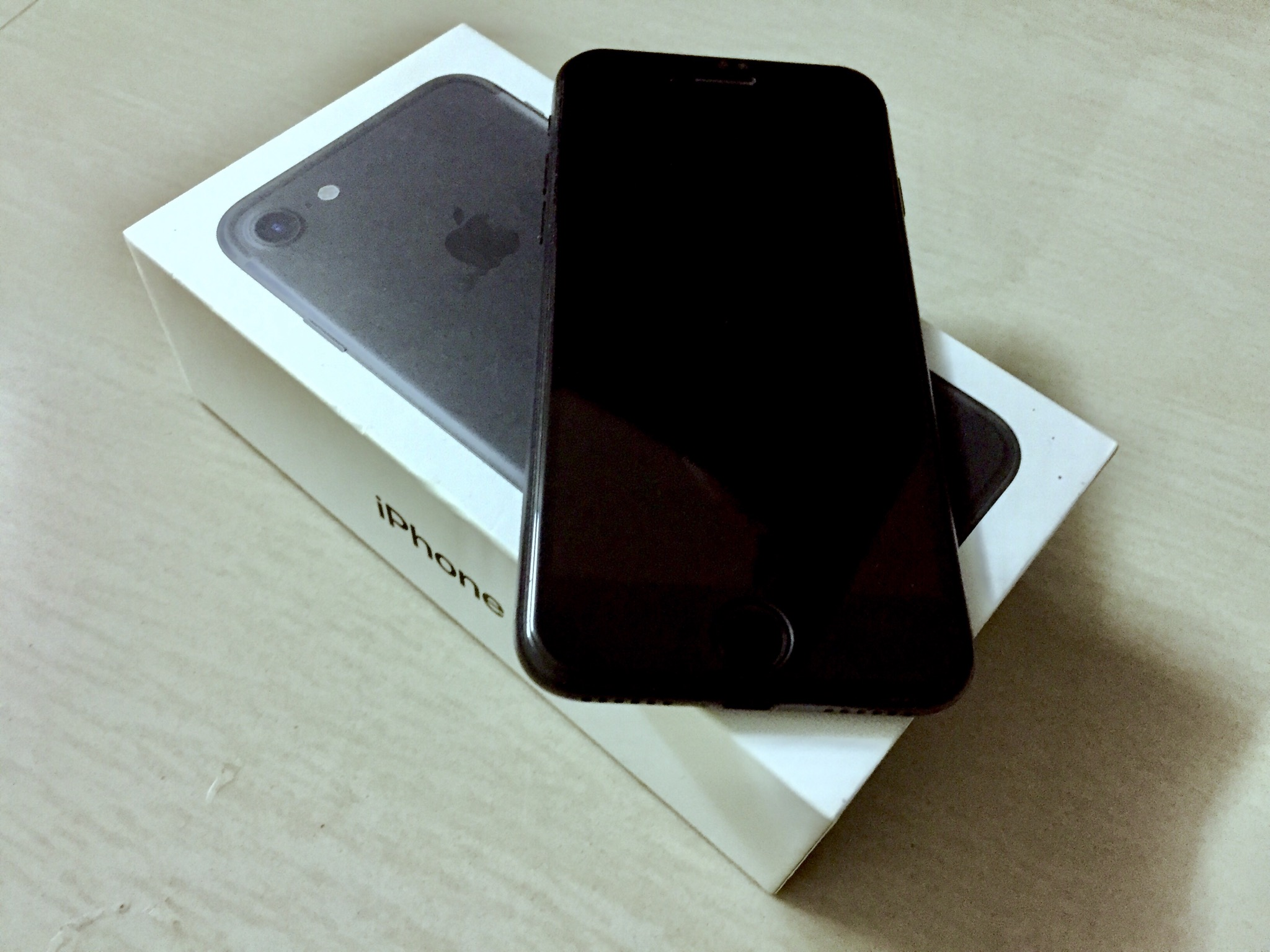 Matte Black Iphone 7 with its box